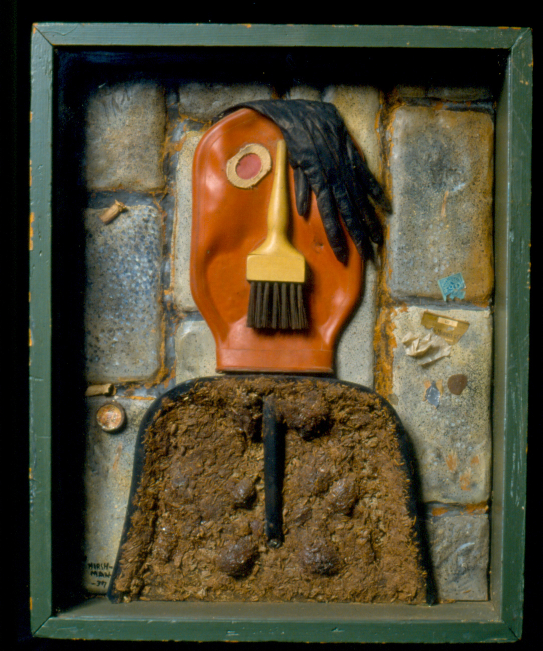 Caricature of Adolf Hitler by Louis P. Hirshman - 1937